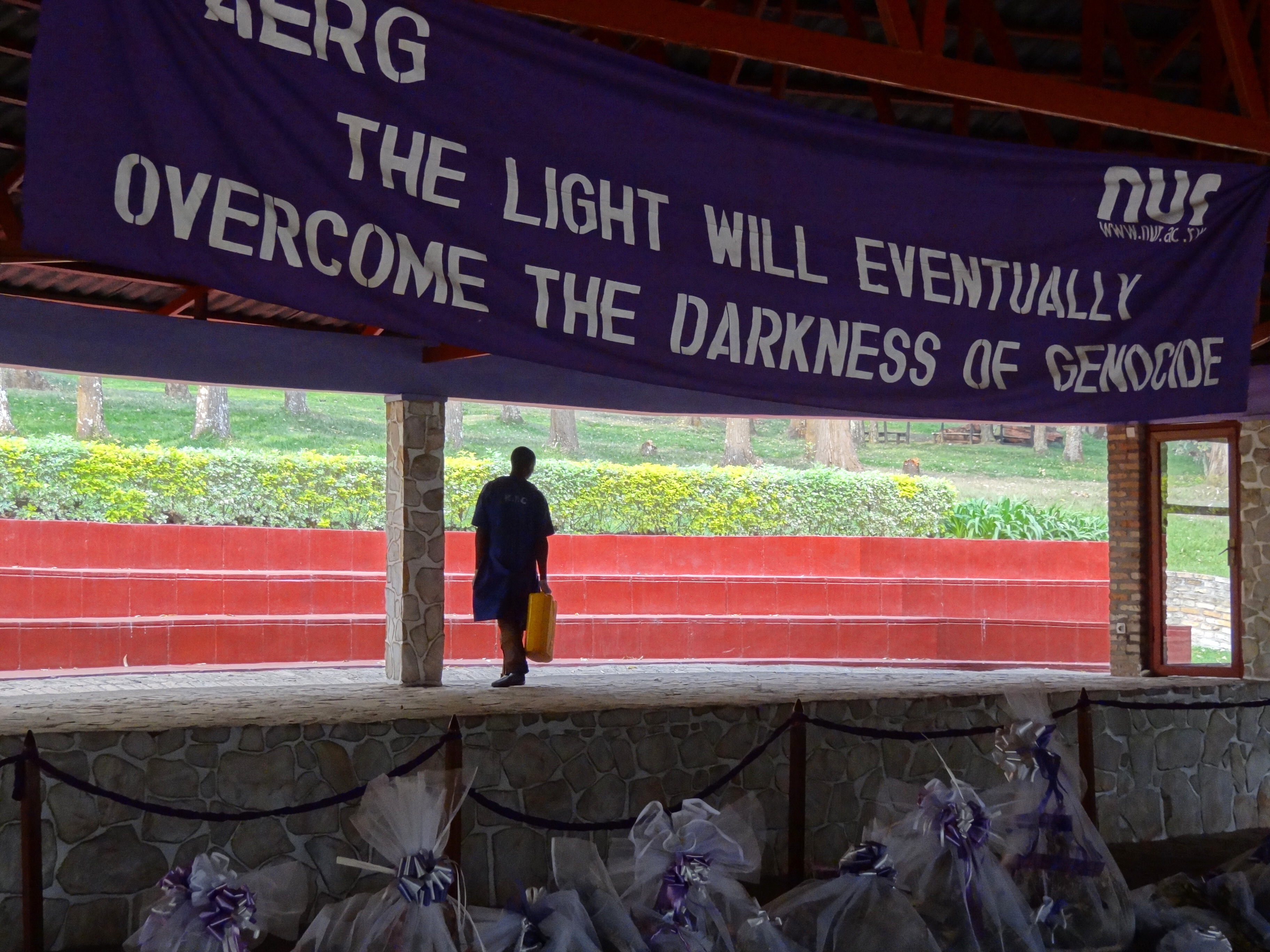 The Light Will Eventually Overcome the Darkness of Genocide - Sign with Commemorative Bouquets at Genocide Memorial at National University of Rwanda - Huye (Butare) - Southern Rwanda - 01